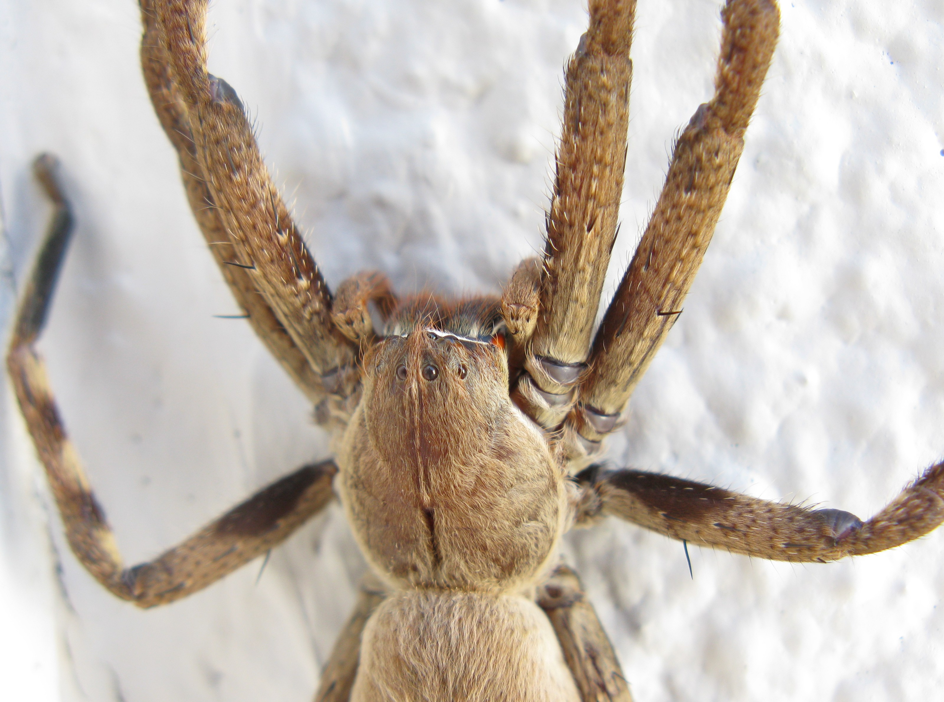 Sparassidae. Palystes castaneus, mature female. Rain spider, or liard eating spider. Photographed near Somerset West, South Africa.